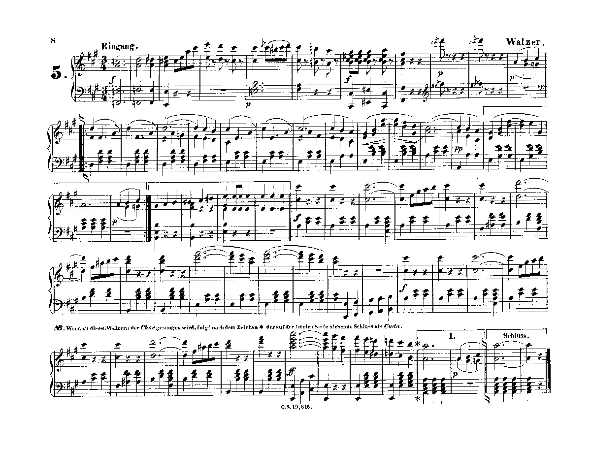 Johann Strauss II. The Blue Danube, 1st ed. by Carl Anton Spina